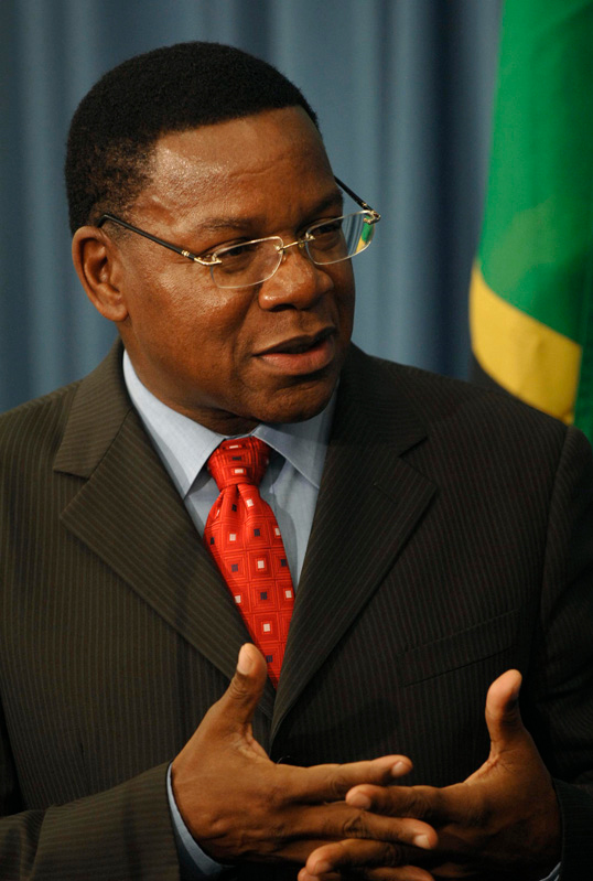 Tanzanian Foreign Minister Bernard Membe at casey Building Canberra